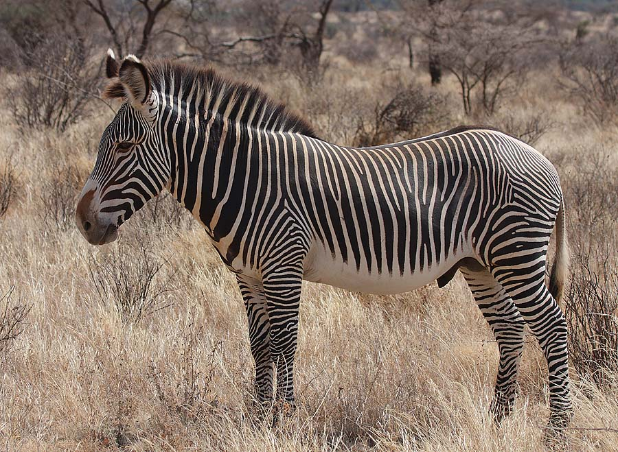 The largest species of wild horse in the World. Image taken in Buffalo Springs/Samburu N.P. (Kenya)